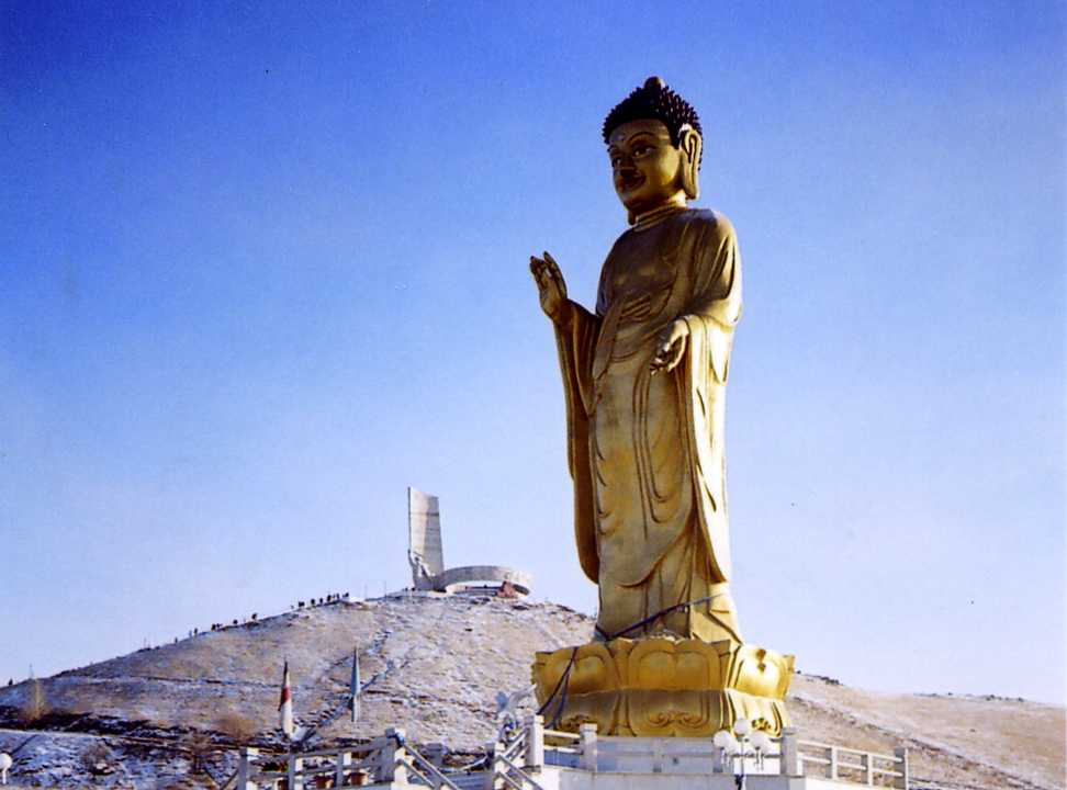 Buddha statue in Ulaanbaatar, near the Zaisan Memorial